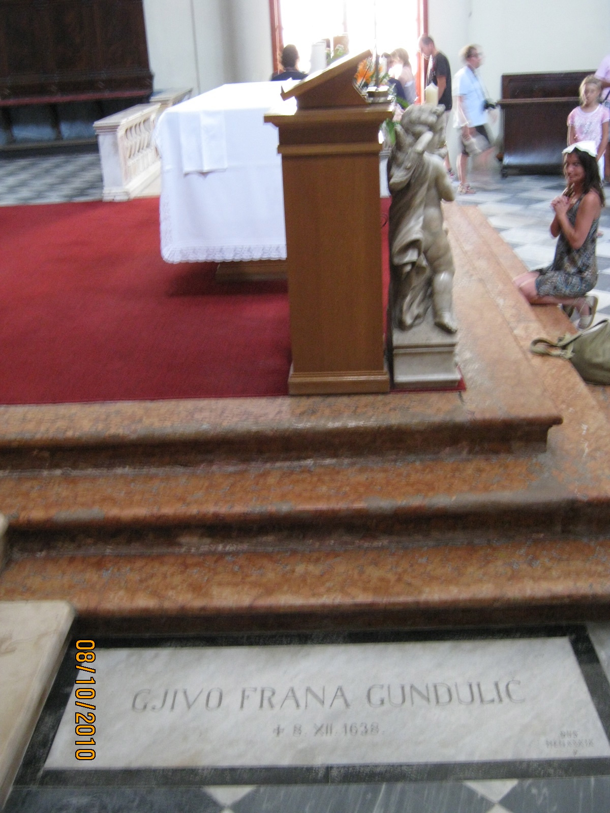 Ivan-Gundulic-Tombstone